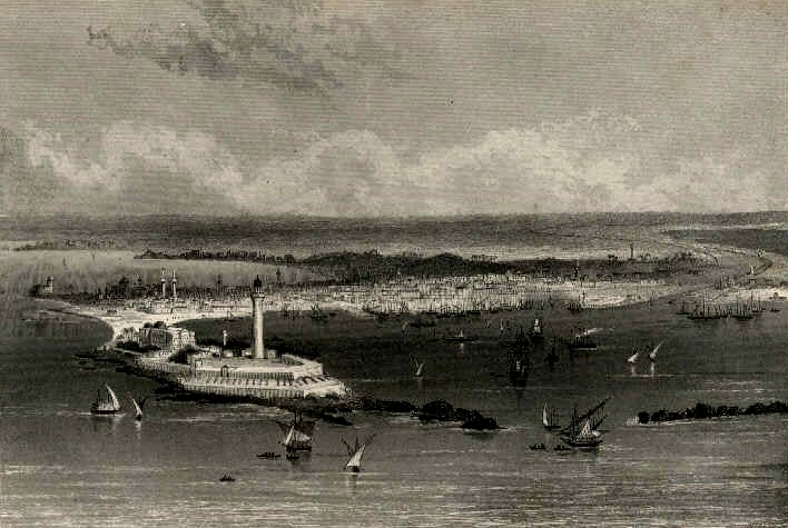 Alexandria old drawings